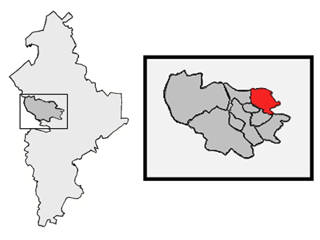 Locator map of the Municipality of Apodaca(red) within the state of Nuevo León, México. Dark gray surrounding the Municipality shows the Monterrey Metropolitan Area. Made by me (Vince) on September 4th, 2005.